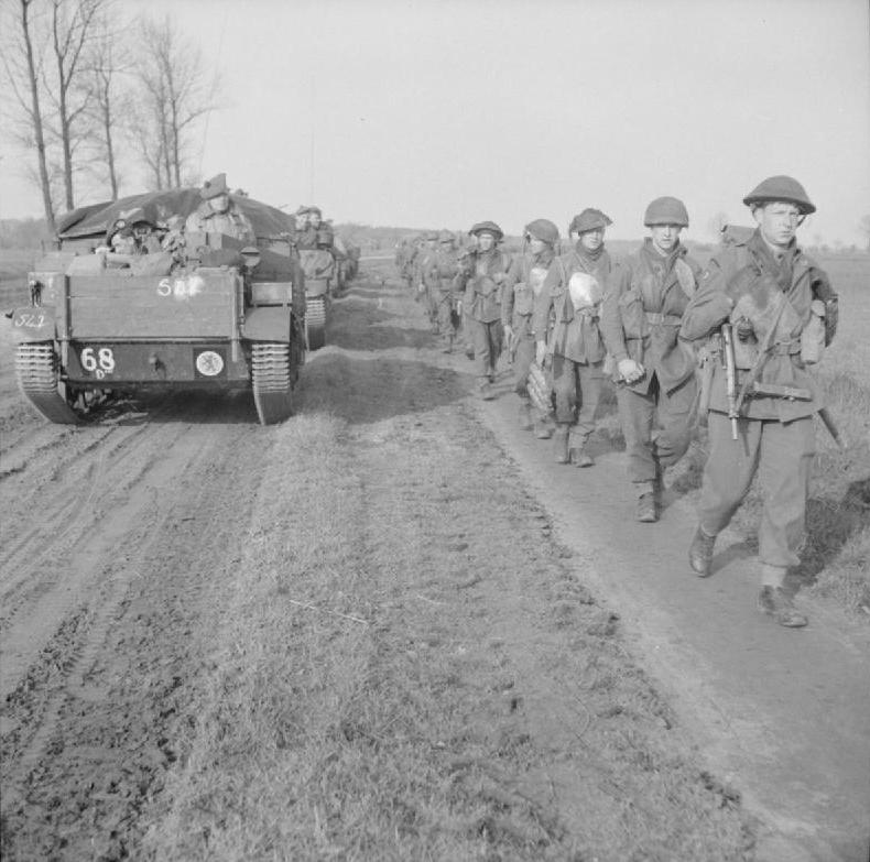 The British Army in North-west Europe 1944-45 Carriers and infantry of the 2nd Gordon Highlanders move up to cross the Elbe, 29 April 1945.